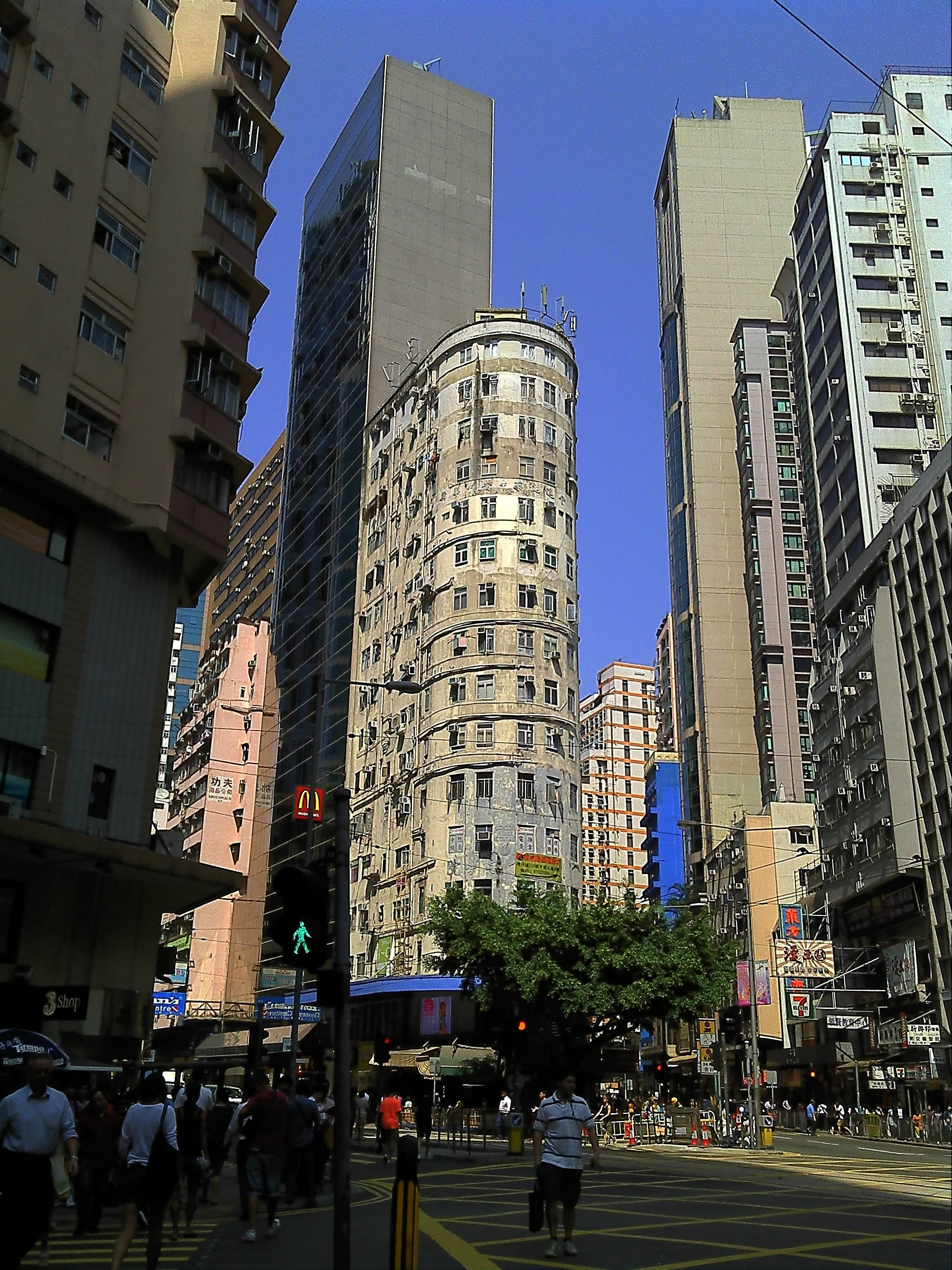 The Chung Wui Mansion located at the intersection of Johnston Road and Wan Chai Road before renovation.